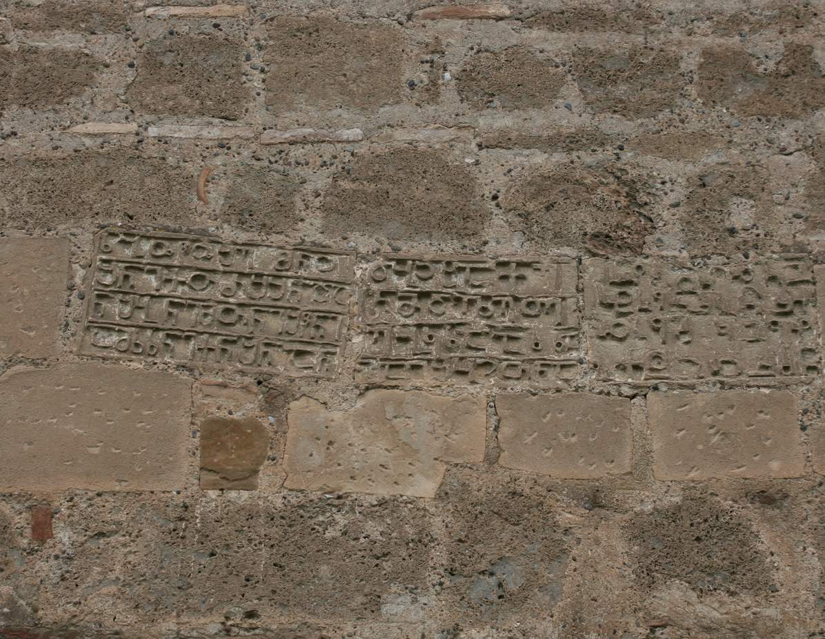 Urbnisi monastery. Inscription